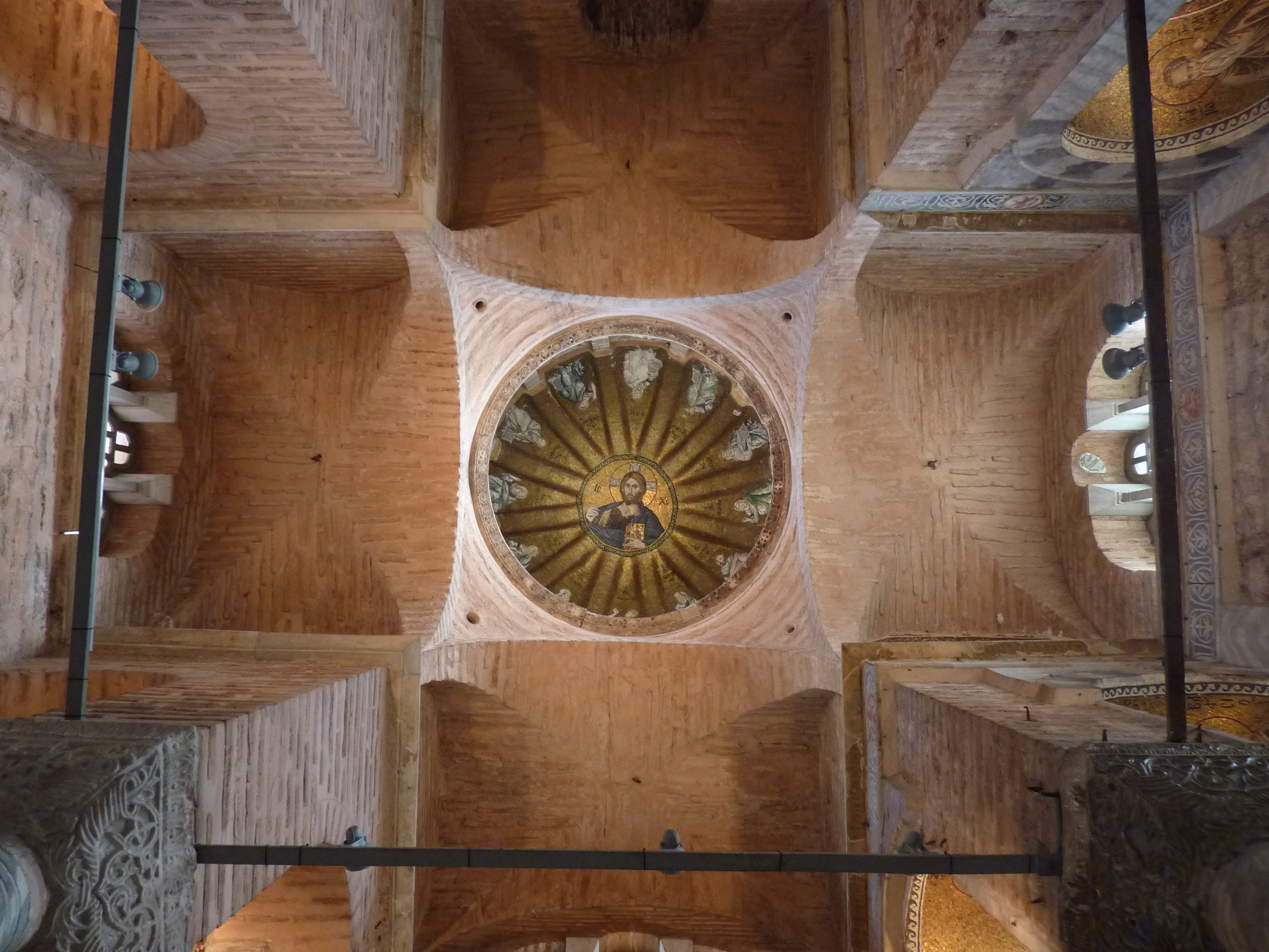 Pammakaristos Church (Fethiye Museum)